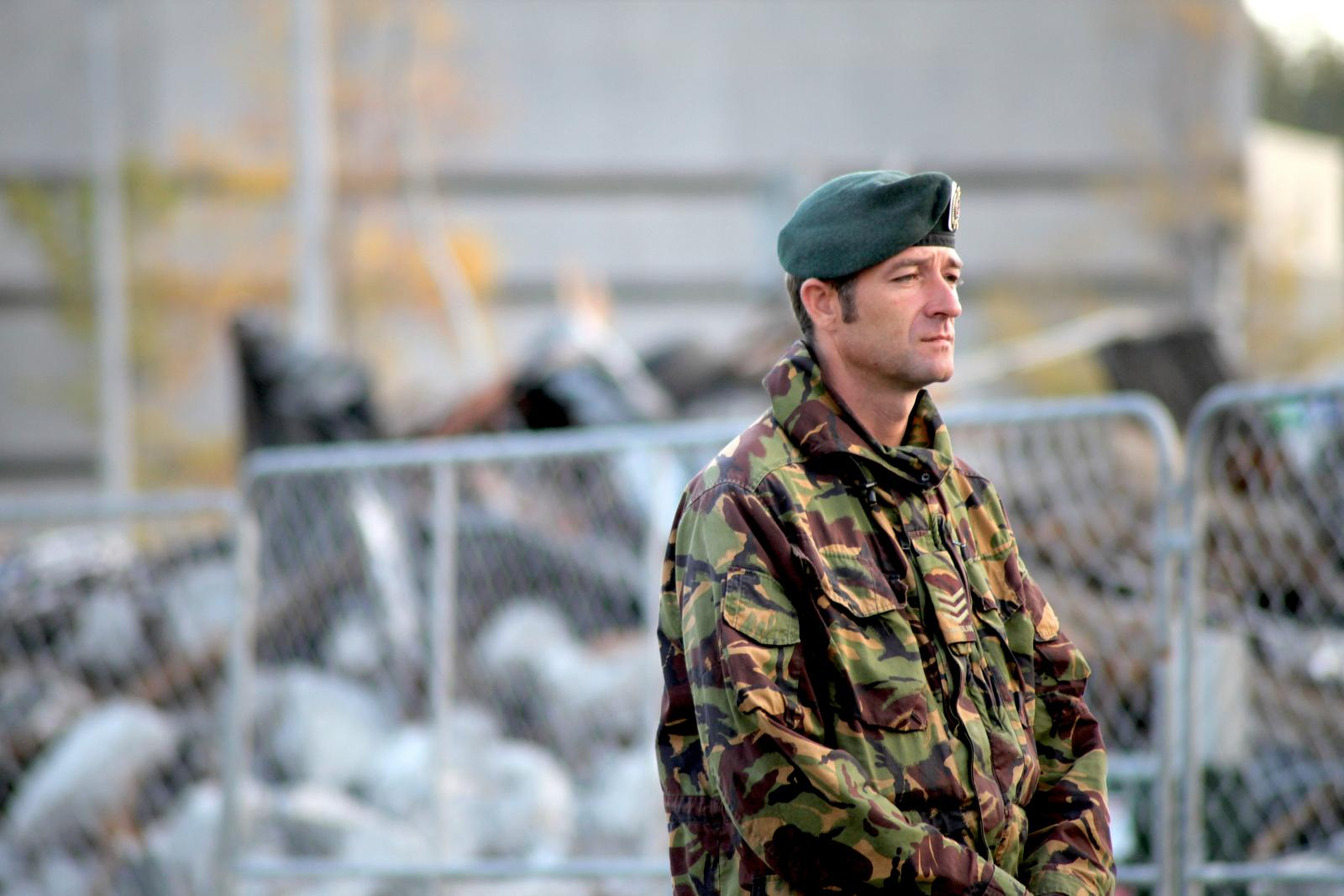 February 2011 Christchurch earthquake. A soldier manning the cordon around the Christchurch CBD.